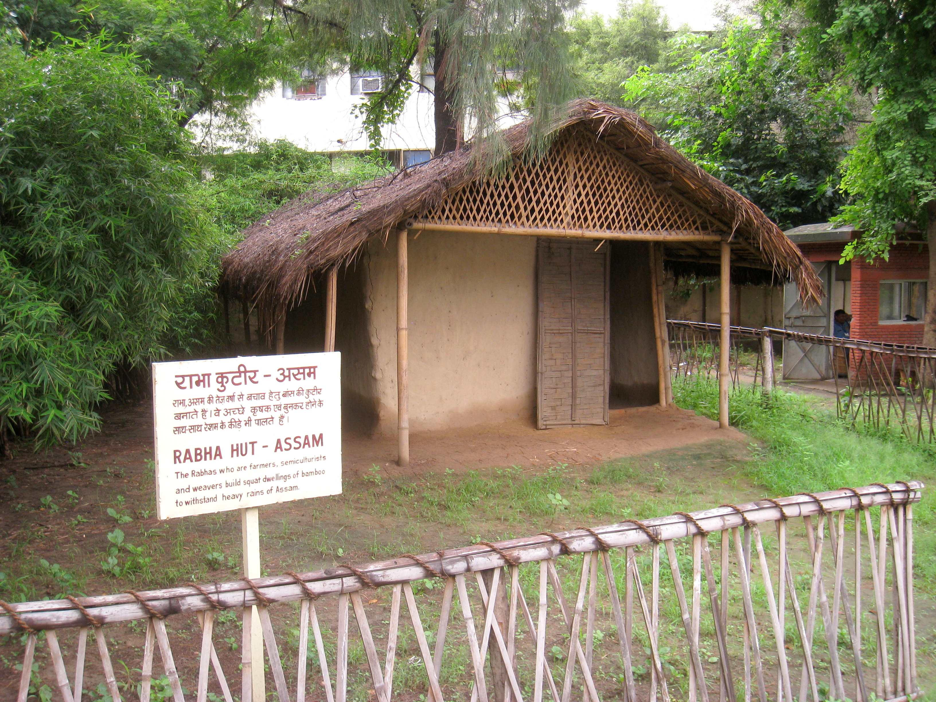 A traditional Rabha hut at the Village complex in Crafts Museum, New Delhi, India.